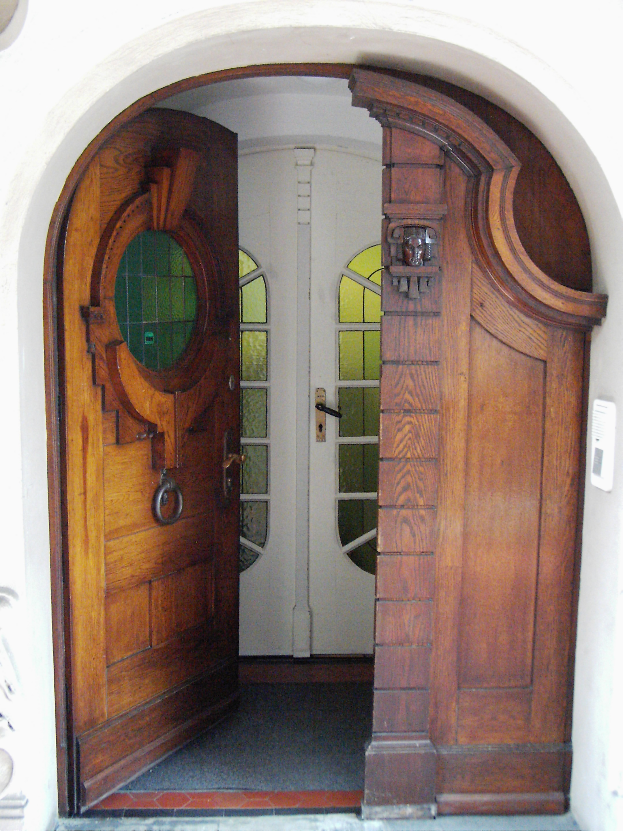 Main entrance of "Haus Coburg"